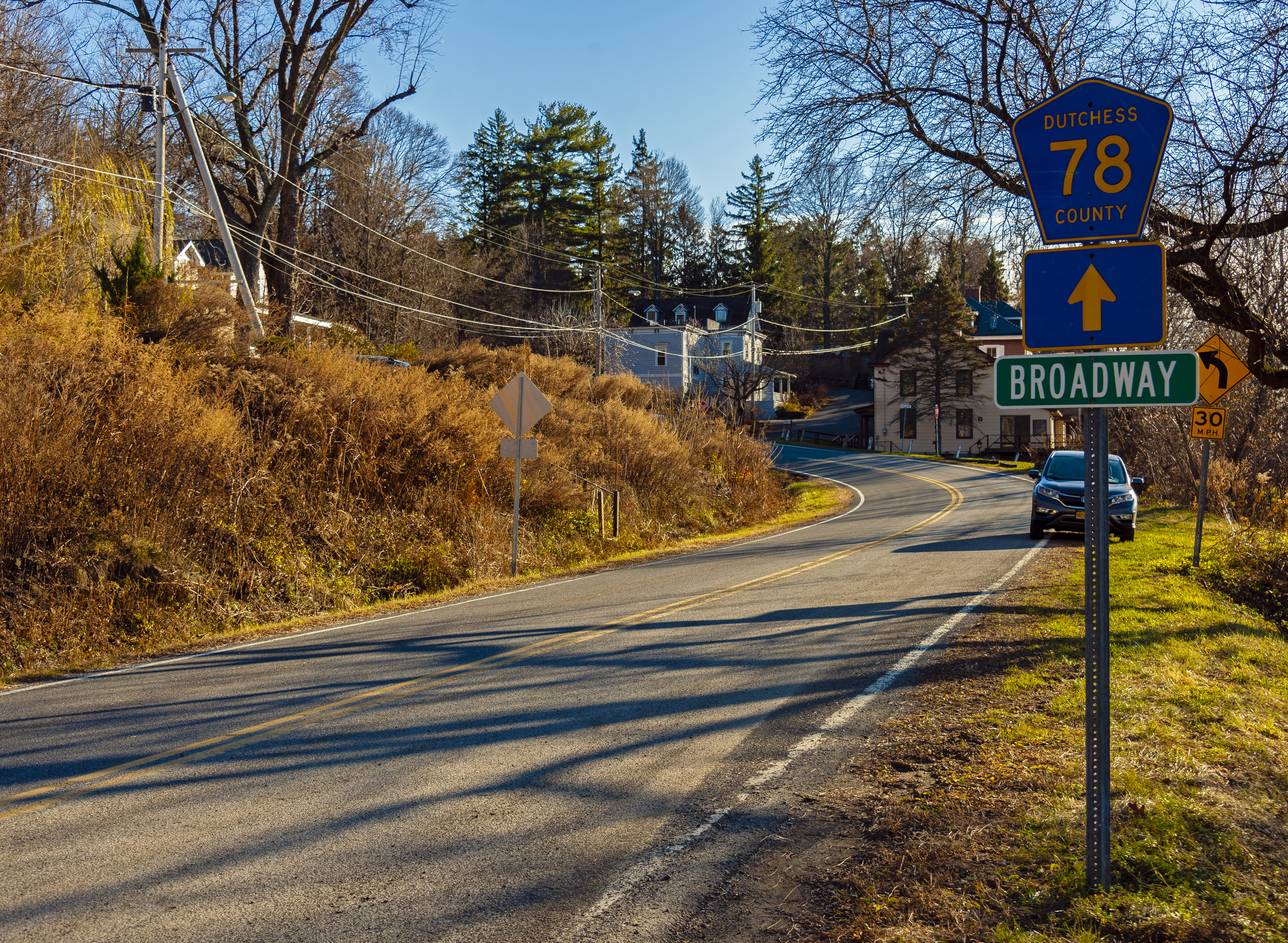 Looking eastbound at the east terminus of Dutchess County Route 78 at the Hudson River near Tivoli, NY, USA. Before the construction of the Kingston-Rhinecliff Bridge in 1965, a ferry served this point and this was New York State Route 402